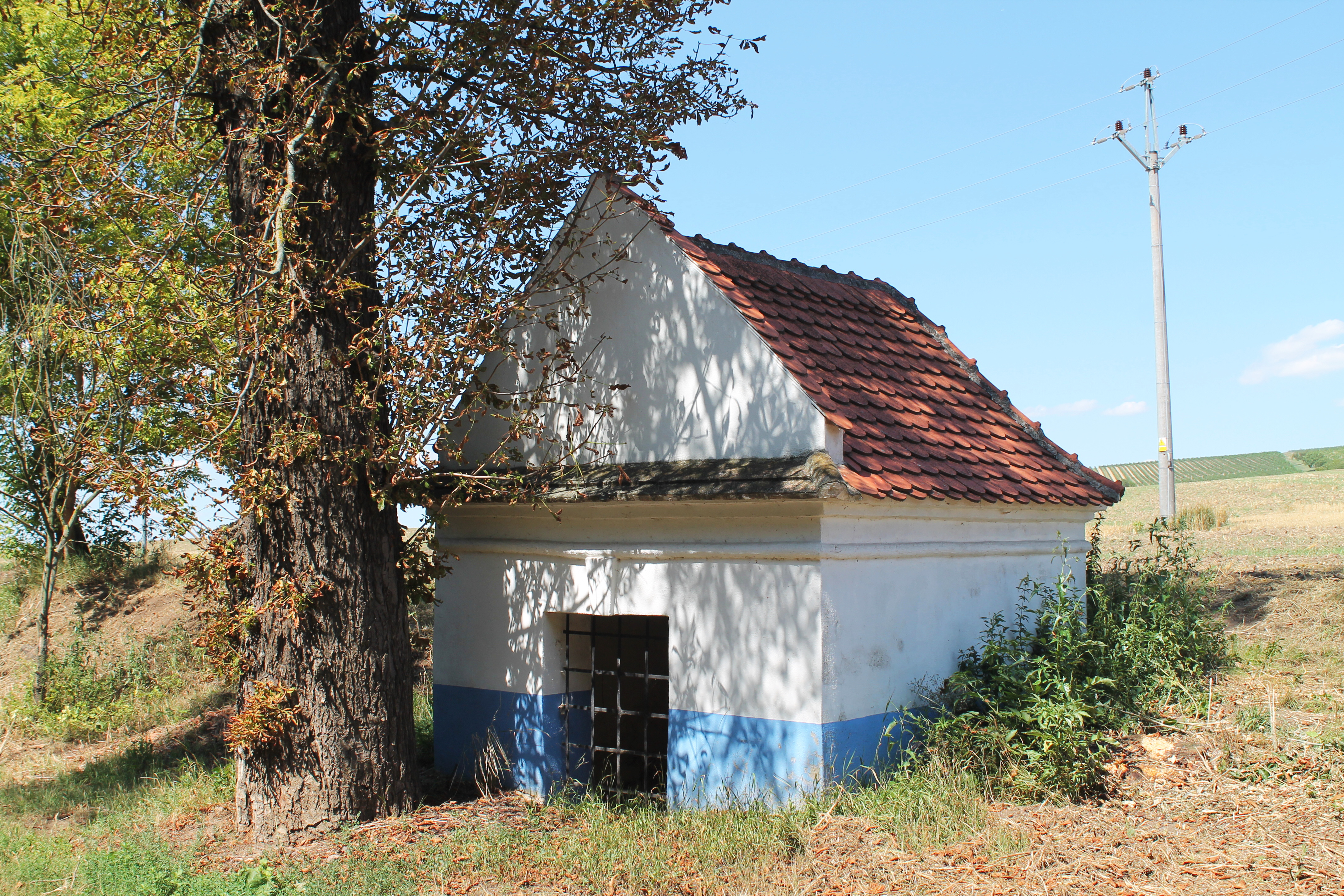 Chapel, Ječmeniště, Vrbovec, Znojmo District, Czech Republic